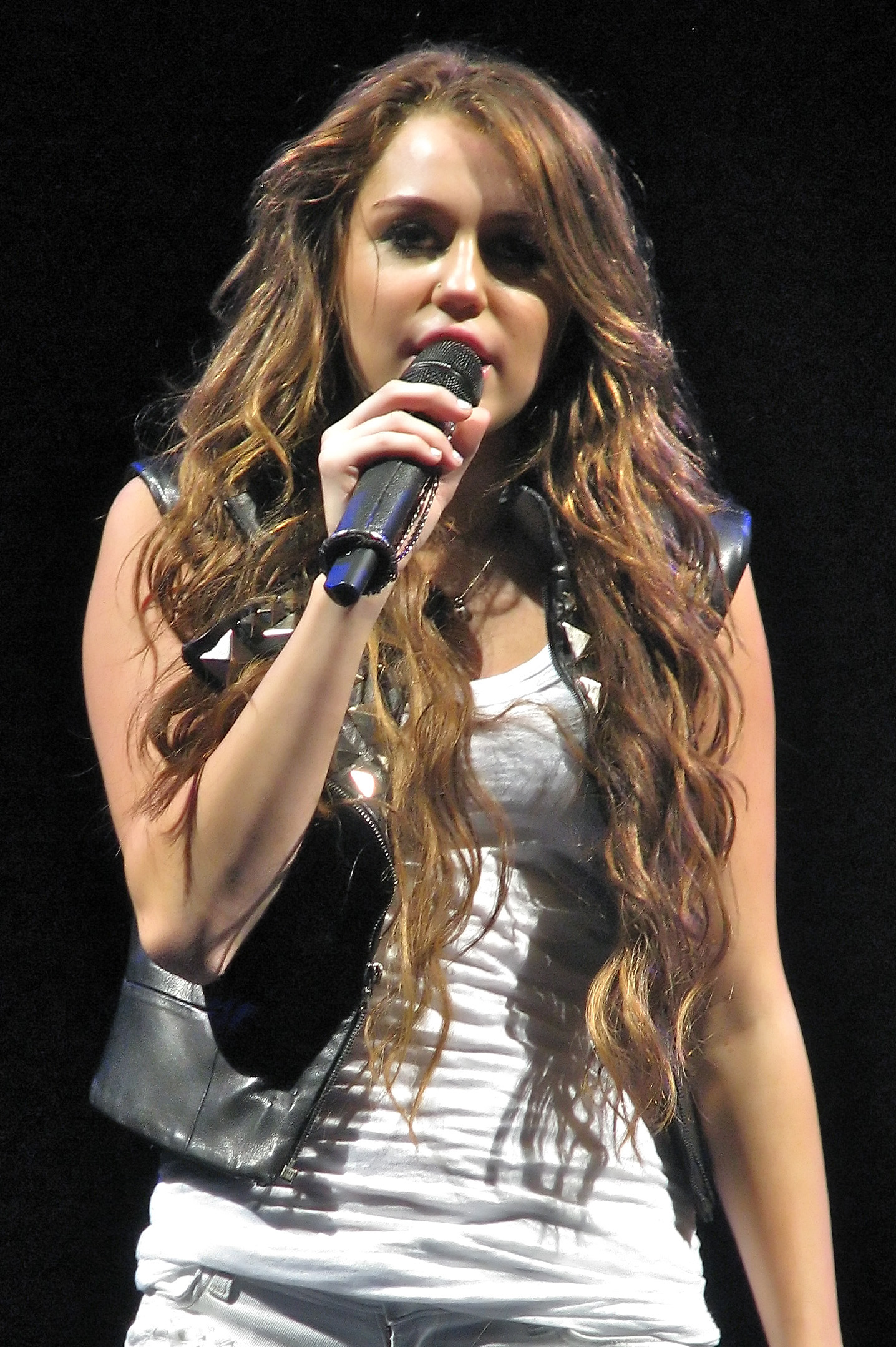 Miley Cyrus singing in concert